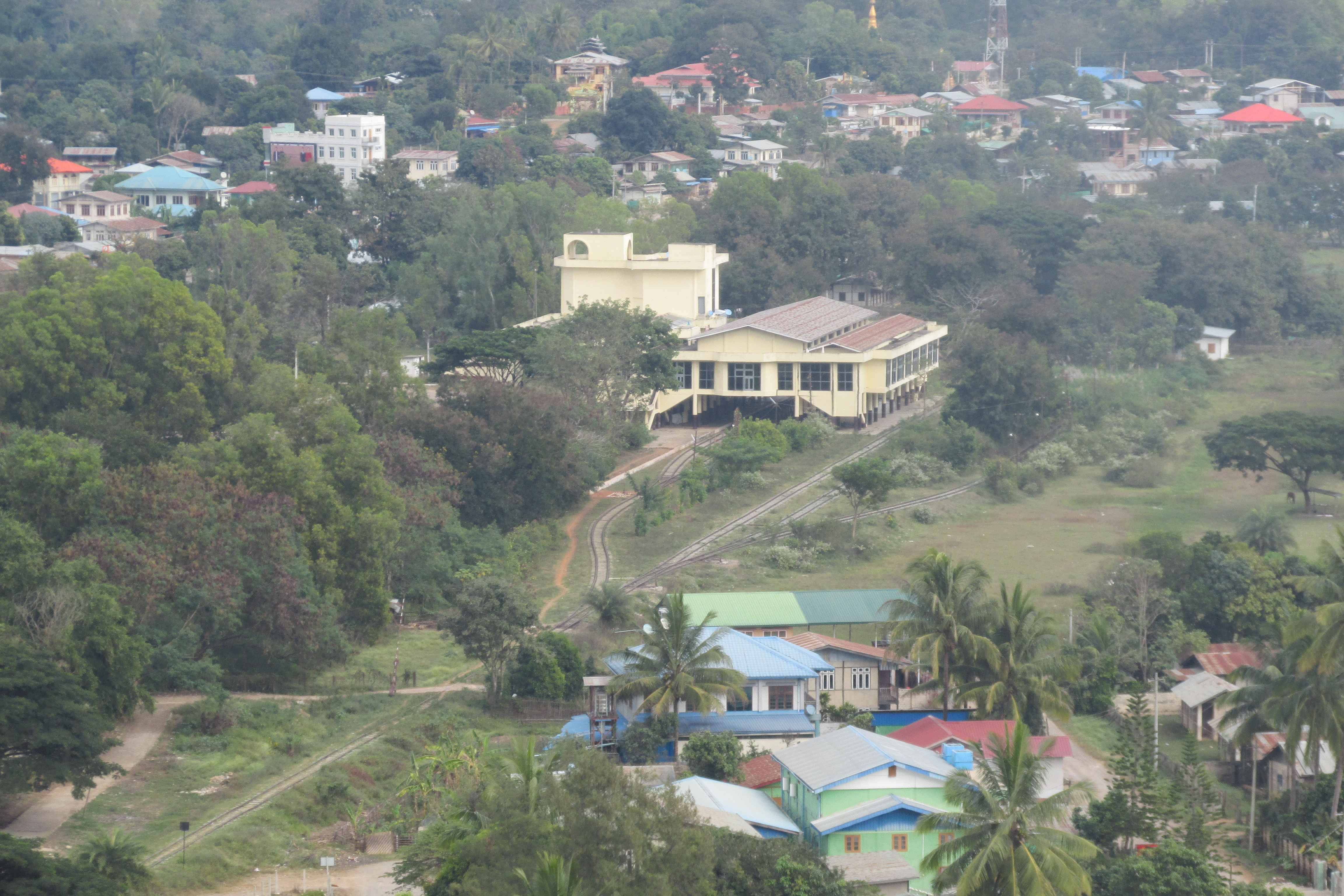 Loikaw Station မြန်မာဘာသာ: လွိုင်​ကော်ဘူတာရုံ